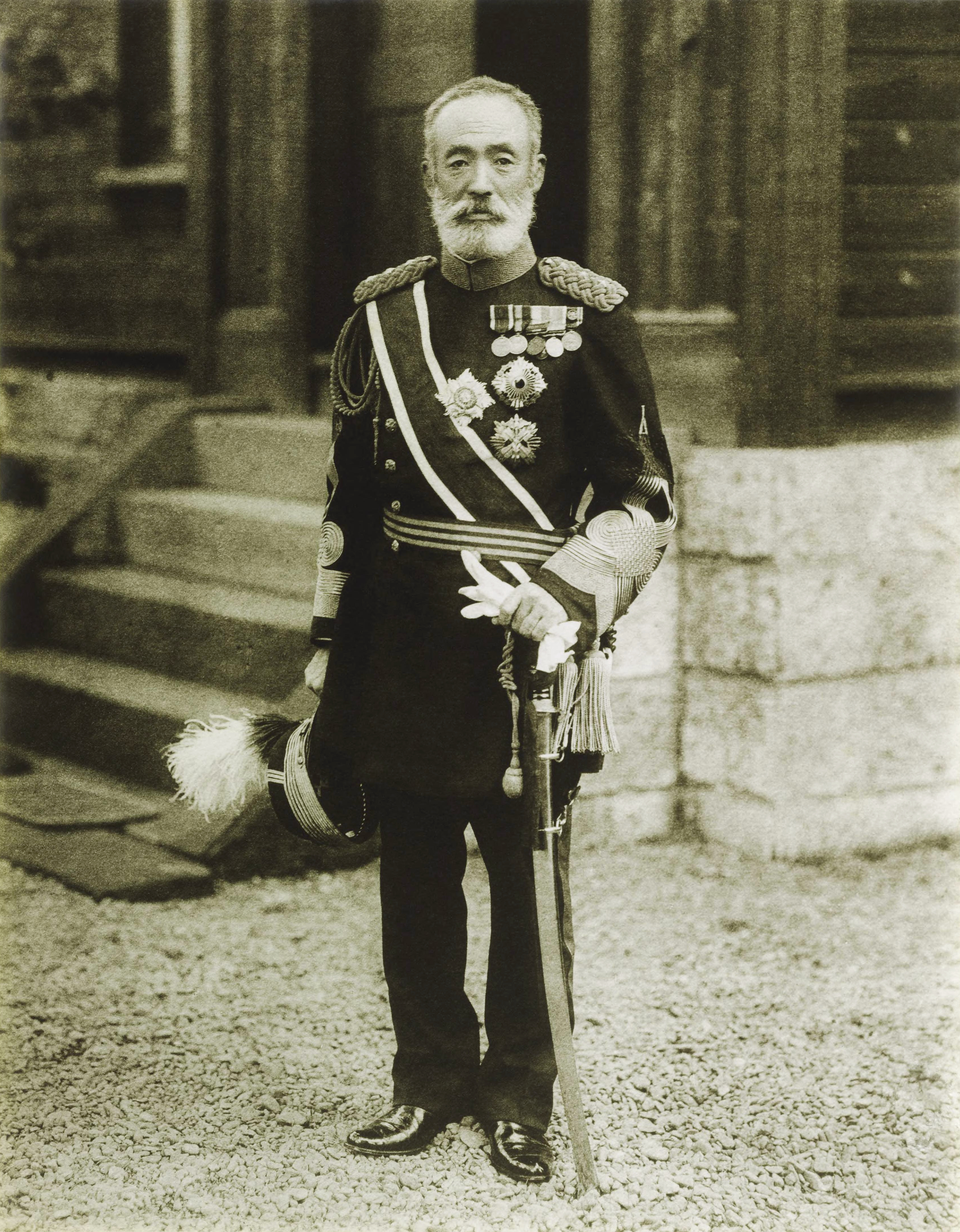 Portrait of Nogi Maresuke (乃木希典, 1849 – 1912)